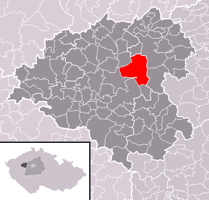 Location of Lužná municipality within Rakovník District and (identical) administrative area of Rakovník as a Municipality with Extended Competence.